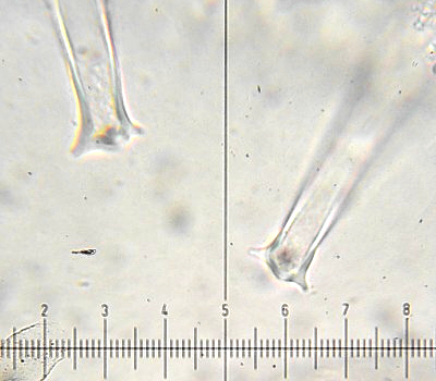 "Horned" cystidia of Pluteus sp., at 1000x. Location: Southern California; Pasadena; Madison Heights.